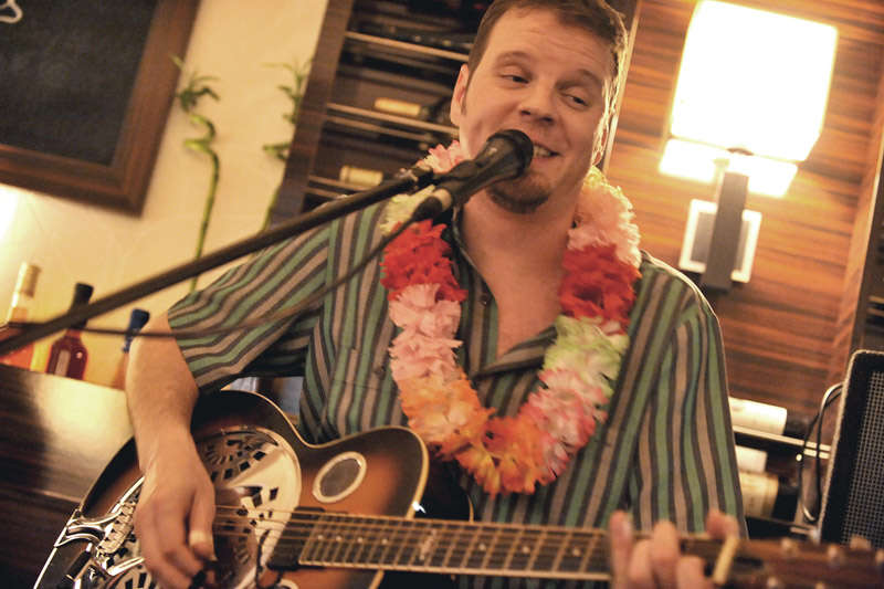 Todays - 2009